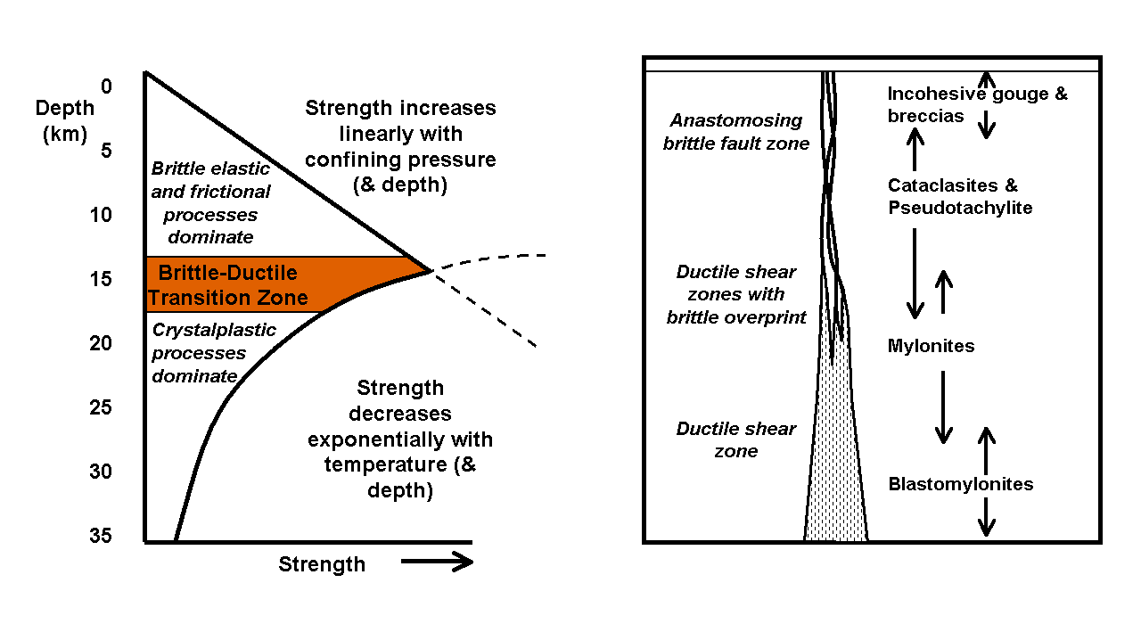 Figure to illustrate article on Brittle-Ductile Transition Zone